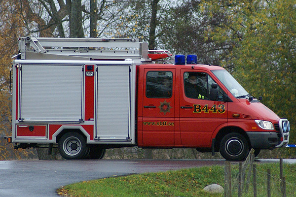 Fire engine, Mercedes 416 CDI, small rescue vehicle, in Stockholm Sweden